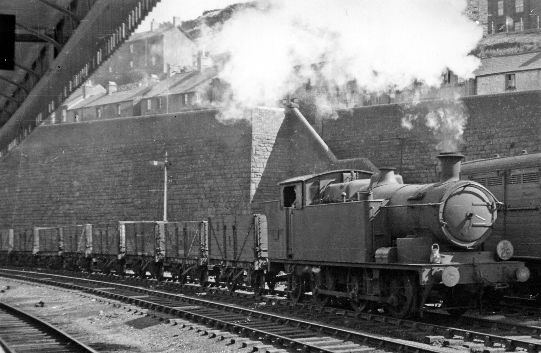 Up empties passing Pontypridd Station. View southward from the Up island platform. Ex-Rhymney Railway 'A' class 0-6-2T No. 58 (built 5/11) was shedded at Barry. The target 'B26' displayed on the engine shows that the train originated at Cadoxton and is destined for Lady Windsor Colliery in the Clydach valley.